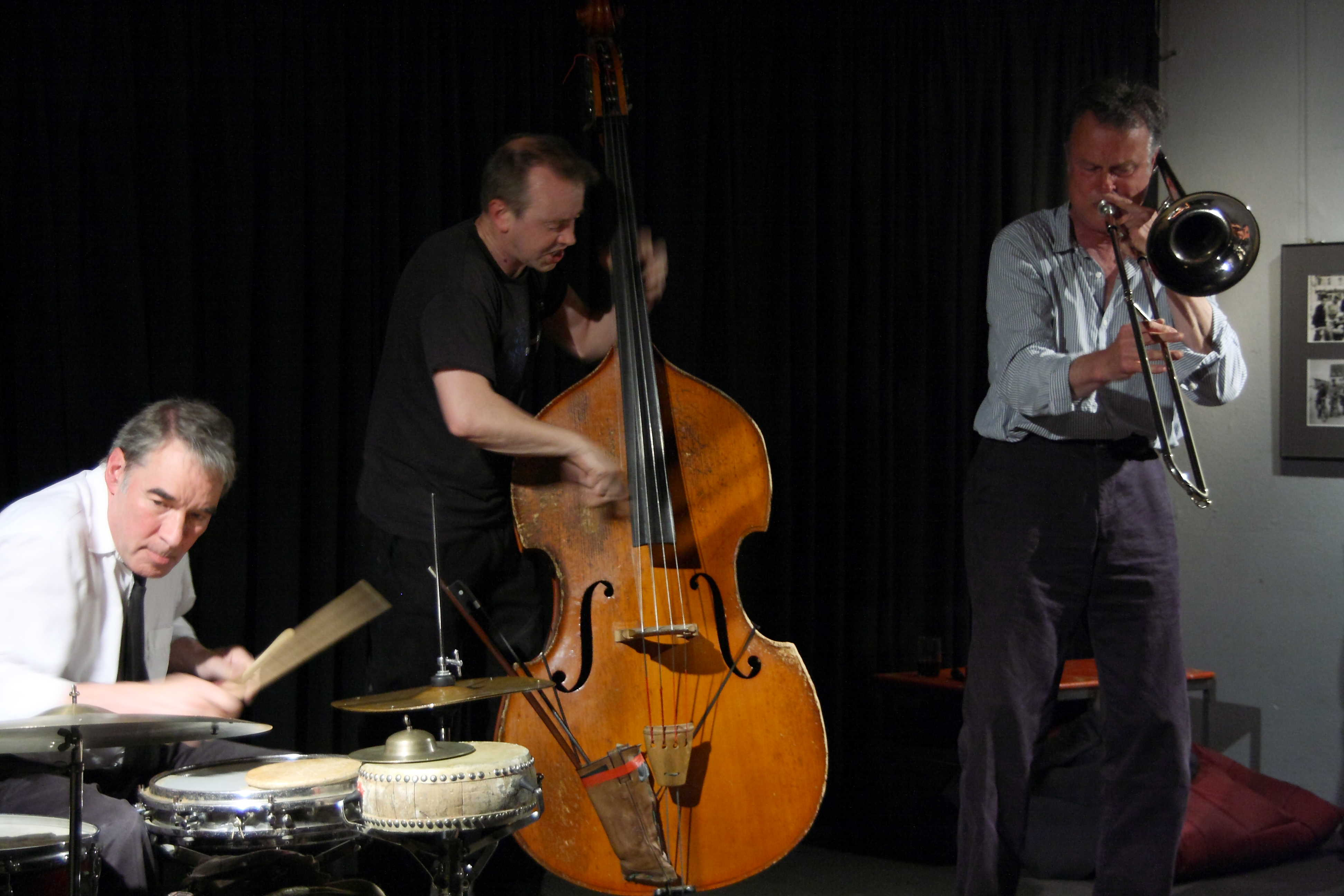 PaPaJo: Paul Lovens (dr), John Edwards (db) and Paul Hubweber (tromb) at Club W71, Weikersheim